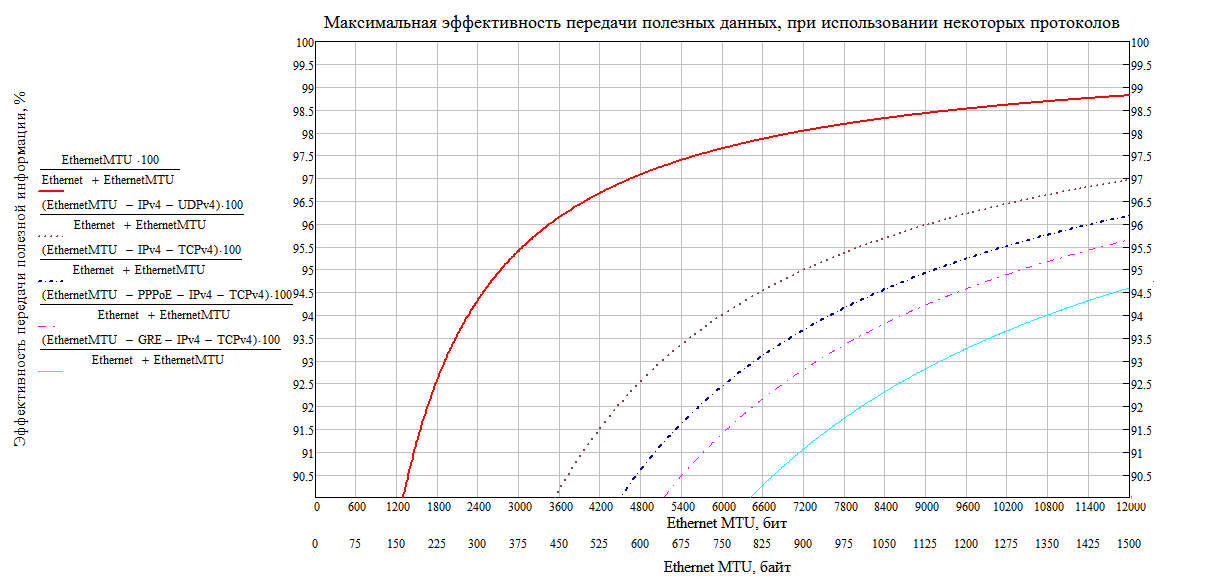 Descriptions in Russian read: X: Ethernet MTU, bits; Ethernet MTU, bytes. Y: Efficiency of information transfer.